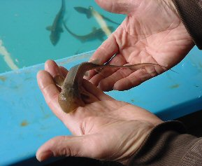 The Pallid sturgeon is one of the largest fish species found in the greater Mississippi River water basin. The species was placed on the U.S. endangered species list in 1990. This is a hatchery bred pallid larval.